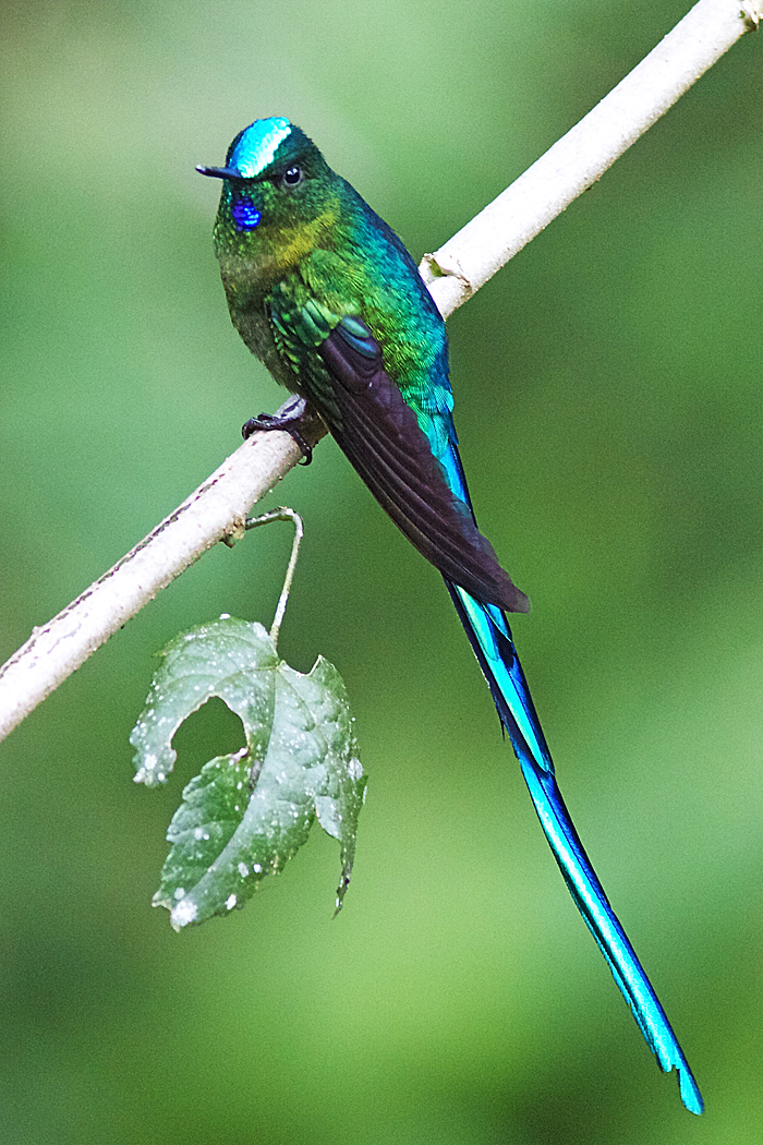 Long-tailed Sylph photo taken at San Isidro Lodge (east slope), Ecuador.